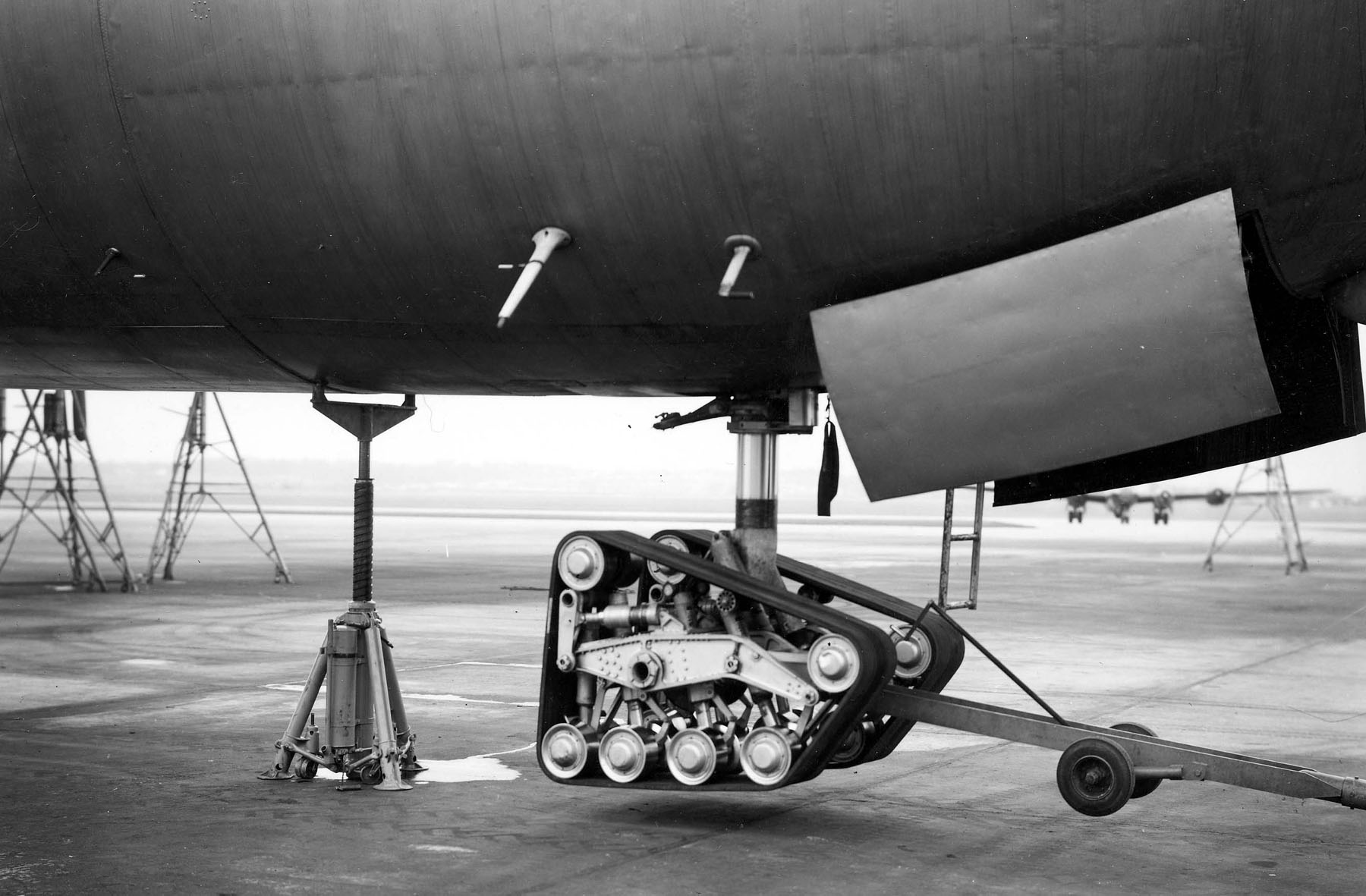 Convair XB-36 nose landing gear detail